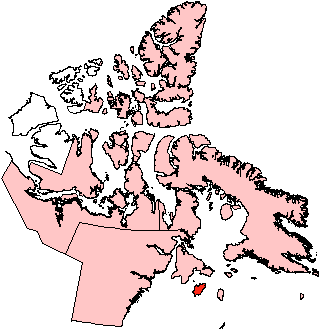 Map of Nunavut with Coats Island highlighted. Base image created by Keith Edkins as GFDL, modified by Tim Vasquez.